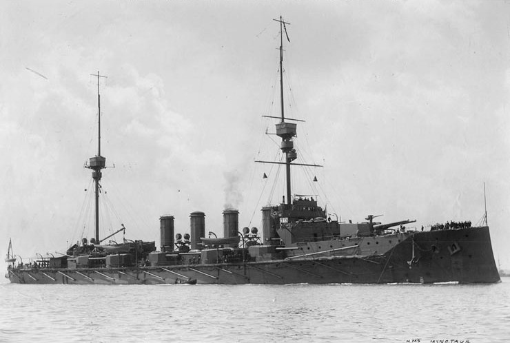 Caption : "HMS Minotaur (British Armored Cruiser, 1908) Underway in harbor, prior to World War I."